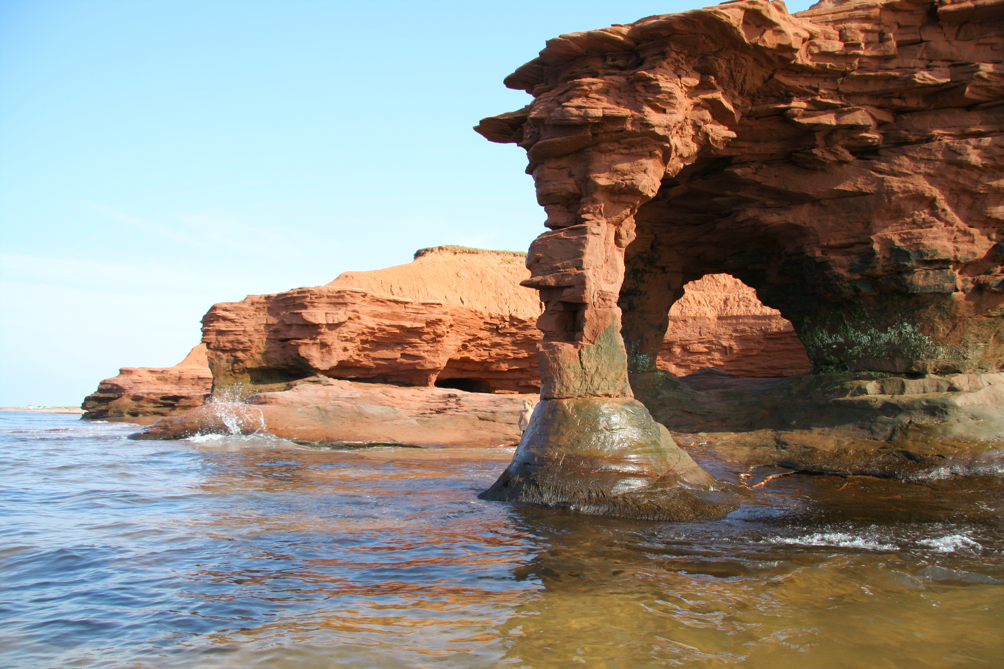 Sandstone arch.